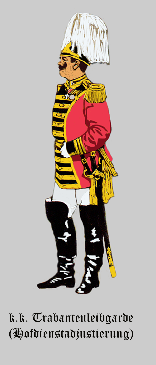 Gardepremierwachtmeister (equivalent to captain) of the Trabantleibgarde of the Austro-Hungarian Armyin in court service uniform.